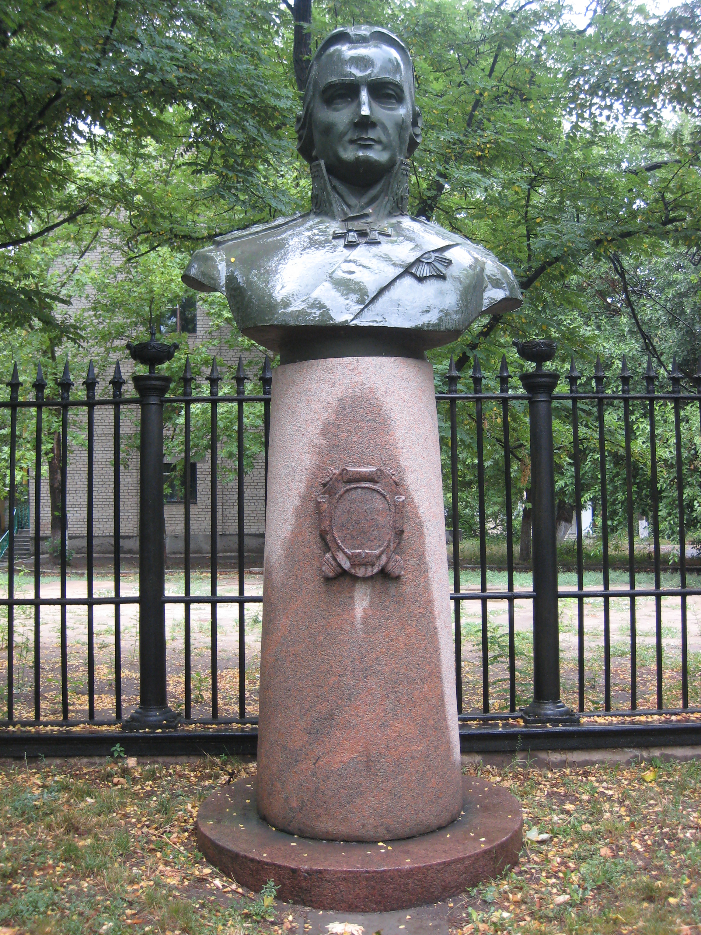 Monument to Fyodor Ushakov in Mykolaiv, Ukraine.